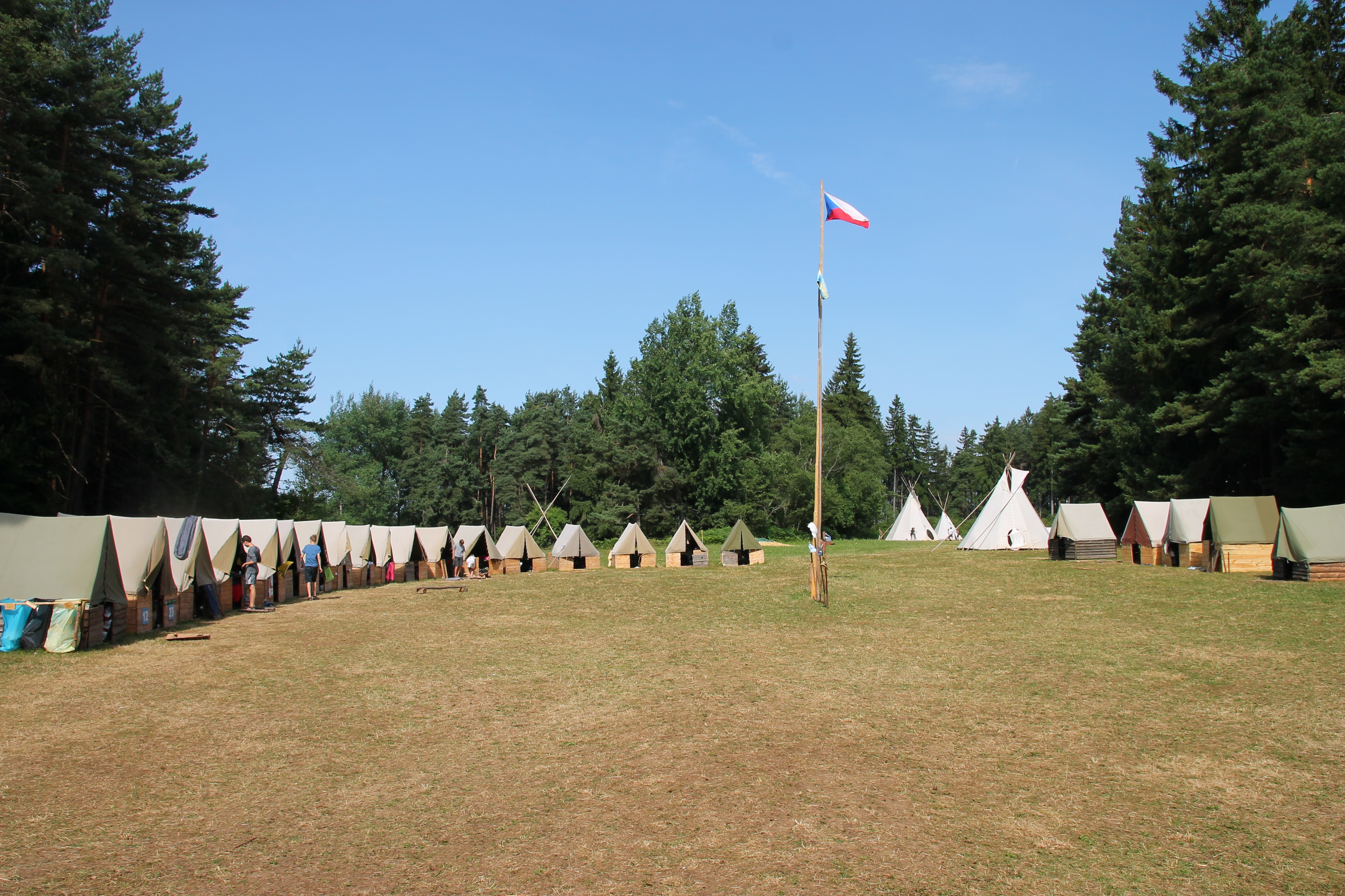 Scout campsite Svatá Maří, gathering place with the flagpole